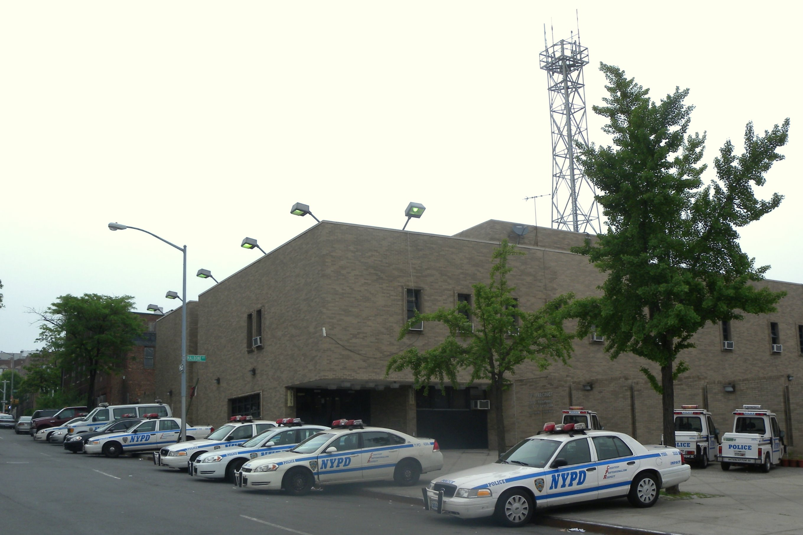 Looking northeast across New York Avenue from Empire Boulevard at 71st Precinct, at the east end of Mabone Street, on a cloudy day.